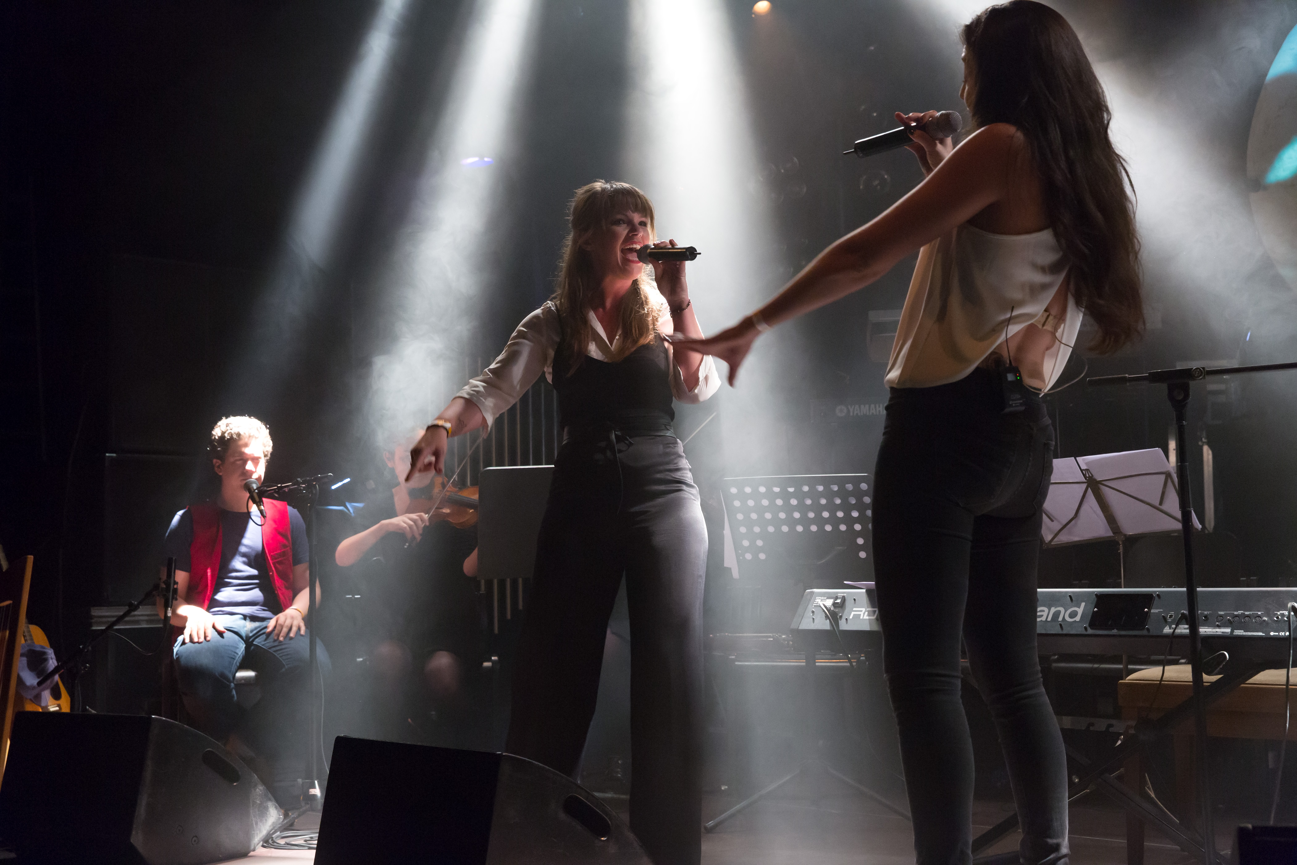 Clara Blume (r) with guest singer Sabine Stieger, release concert for the album Here Comes Everything at WUK in Vienna, Austria.